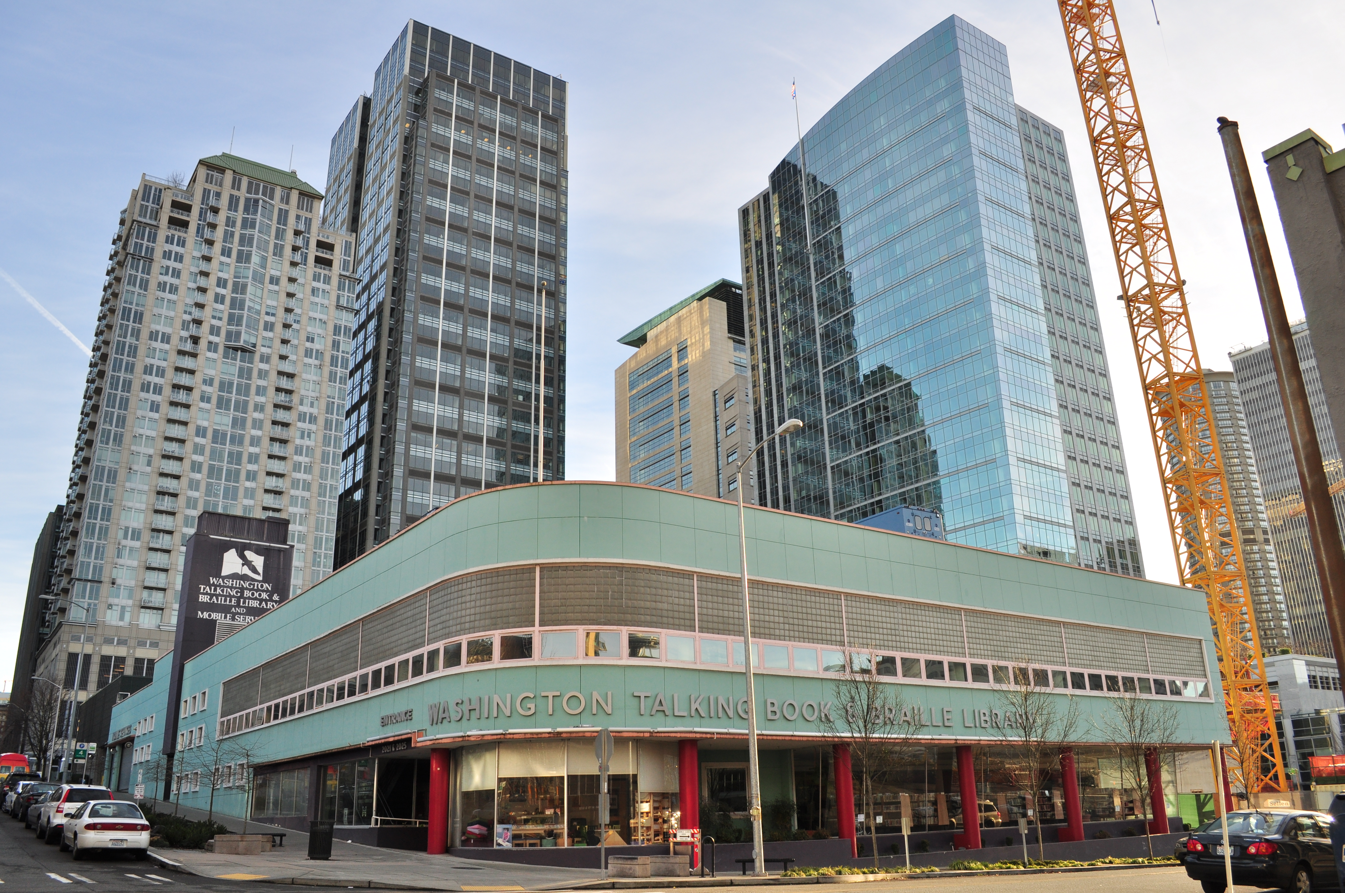 Washington Talking Book and Braille Library, 2021 Ninth Avenue, Seattle, Washington, USA, and view toward downtown. The building was originally a Dodge dealership designed by the architectural firm that later became NBBJ.